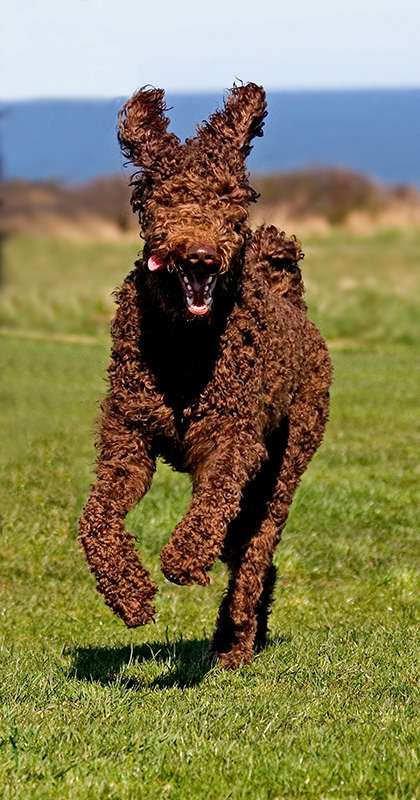 Brown Standard Poodle (Maisie, 22 months old, running at the coast at South Shields in March 2009)